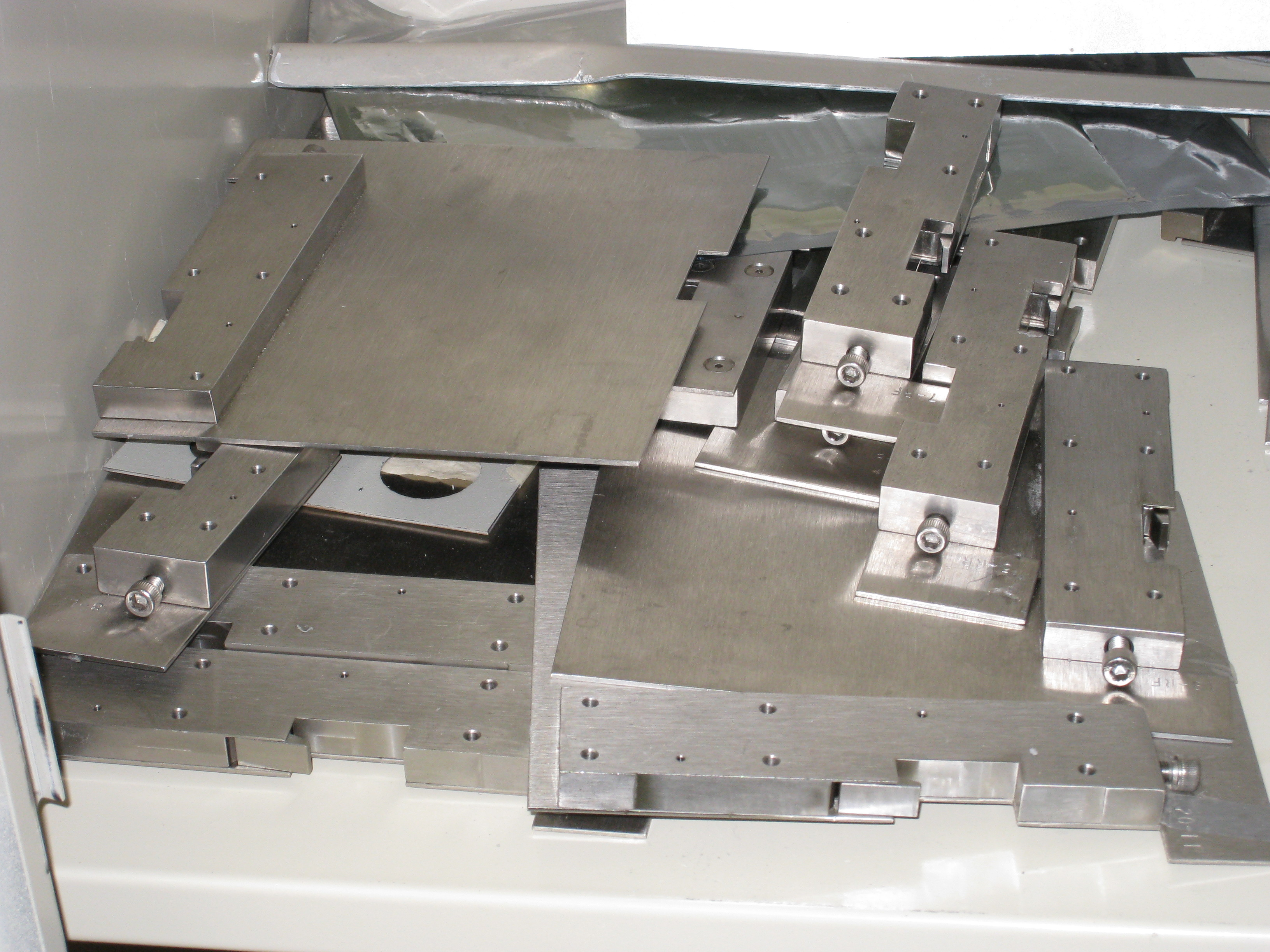 Tooling fixtures to support the bottom PCB in between the rails(transfer lines) while printing